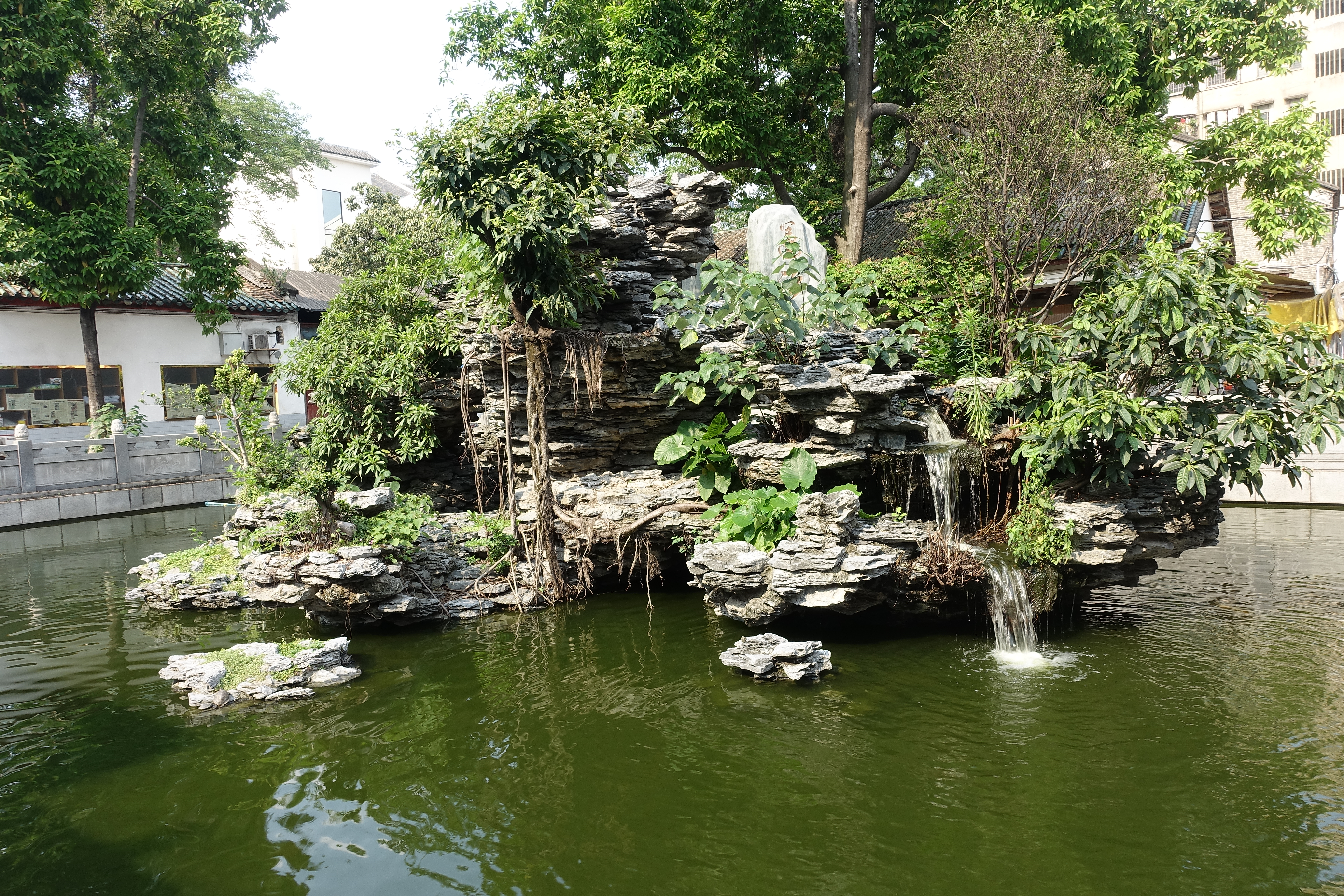 The Free Life Pond at Guangxiao Temple. 中文（中国大陆）: 光孝寺的放生池。